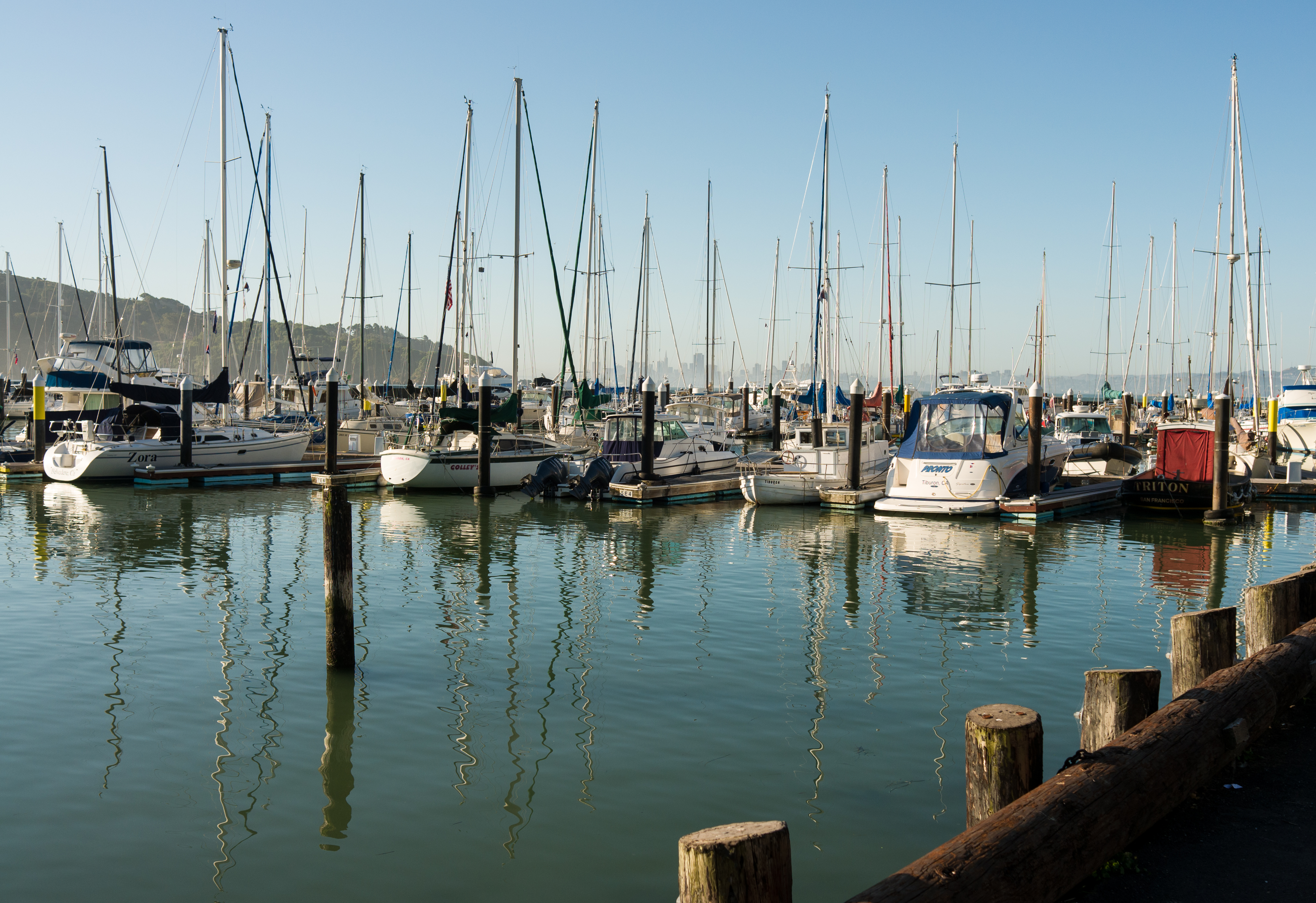 Corinthian Yacht Club, Tiburon, California. In the background, the skyline of San Francisco.